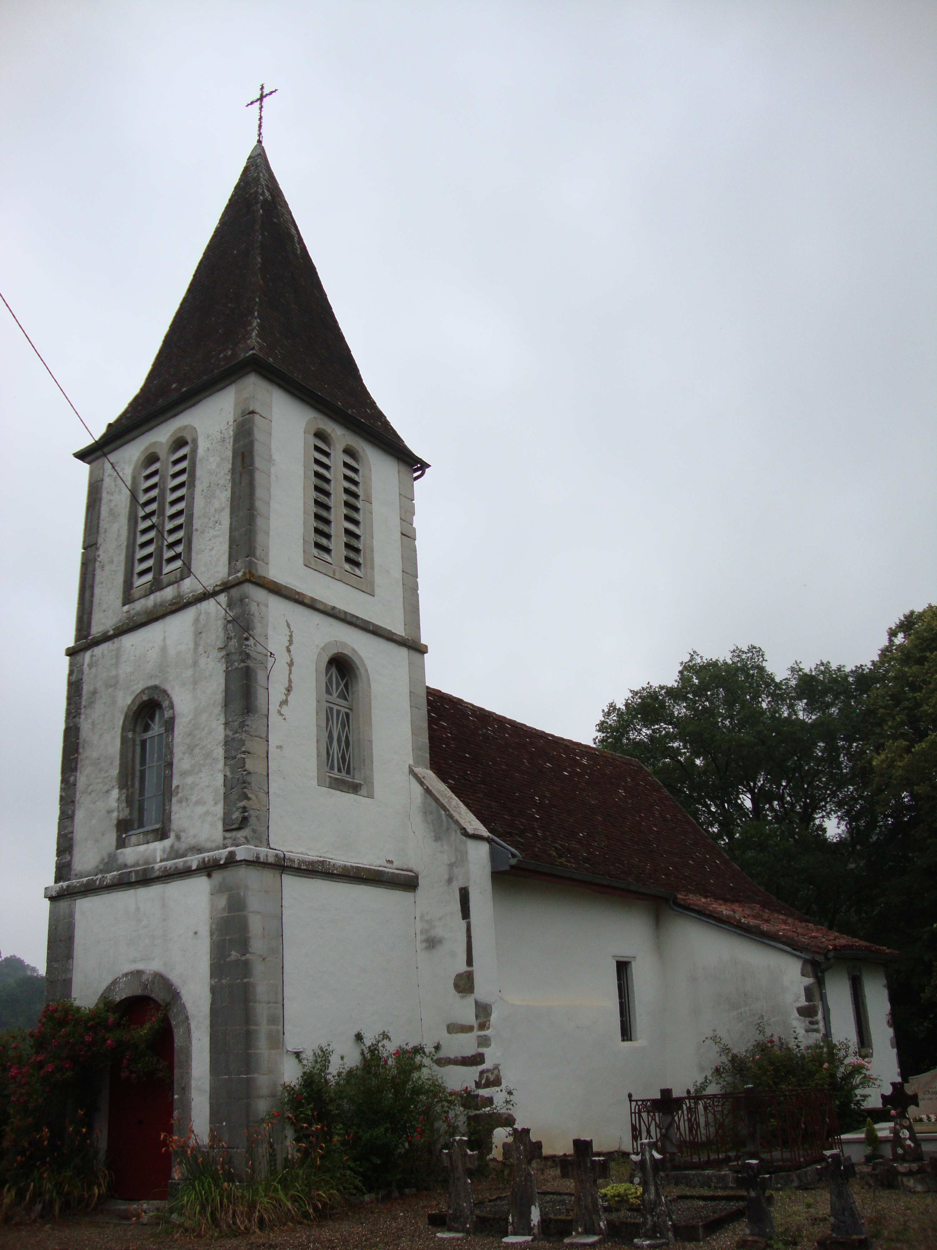 Ithorots (Aroue-Ithorots-Olhaïbe, Pyr-Atl, Fr) church. The image gives a glimpse of the churchyard, which actually contains a number of old graves with crosses and basque steles (not shown here)